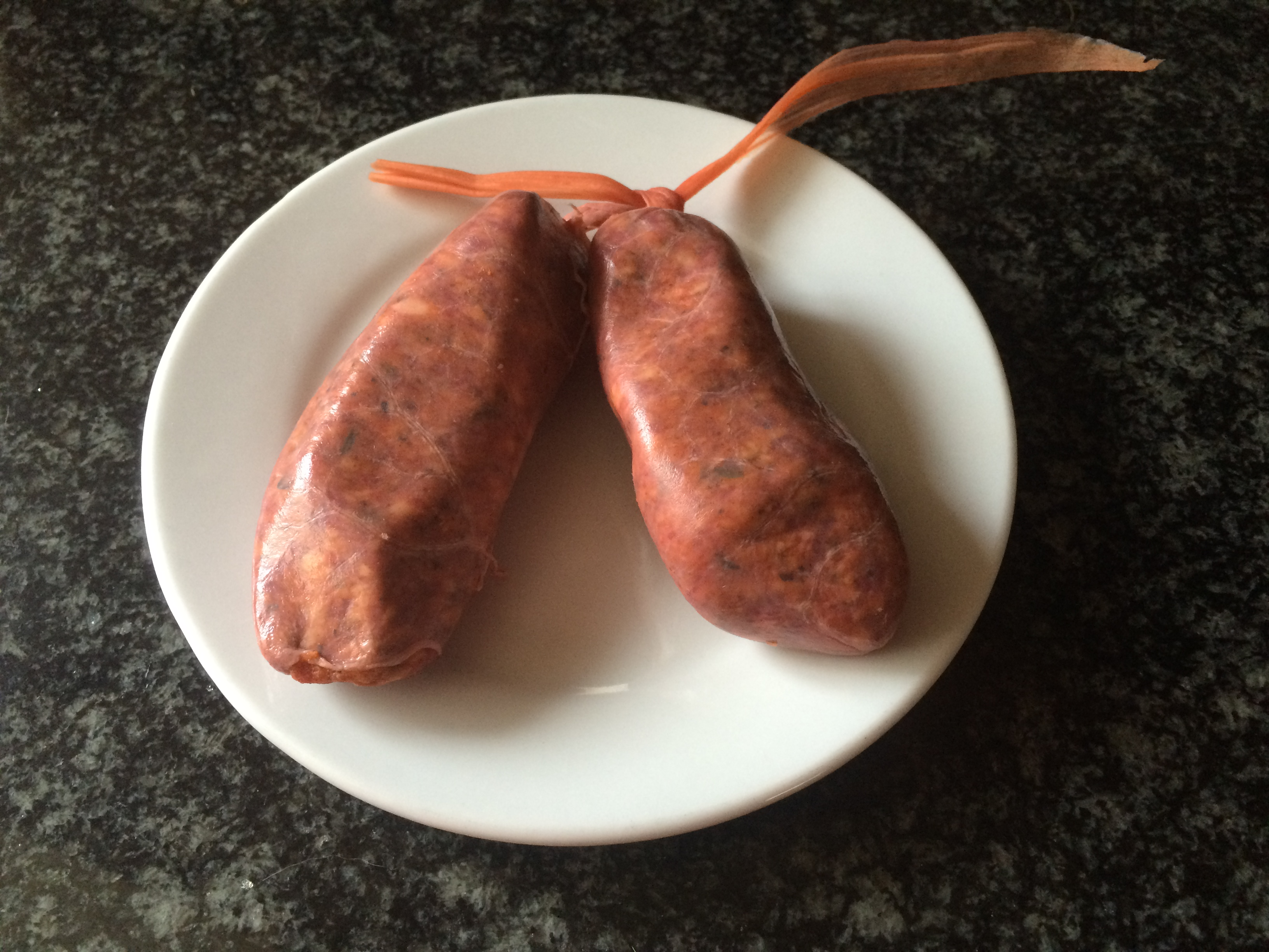 Chorizo, El Salvador style, made at Chavez Market in Hayward, California, 2016. uncooked, contents not known. tasty